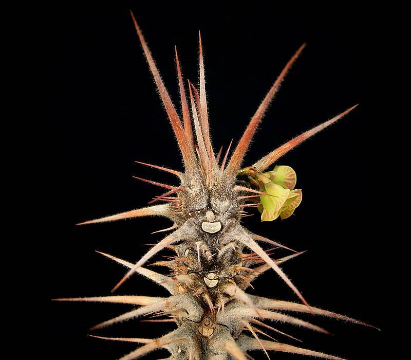 Euphorbia hofstaetteri